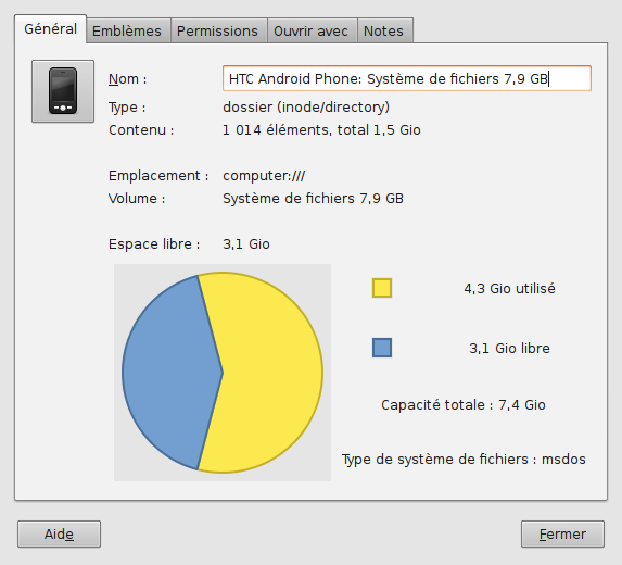 GNOME screenshot showing the difference between gigaoctet (Go, 109 octets) and gibioctet (Gio, 230 octets). Property window of a mounted filesystem taken under Unbuntu 10.4 GNU/Linux distribution.